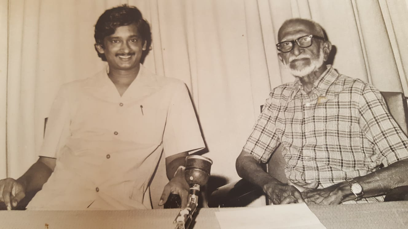 Krishna Raju with his mentor Dr. Salim Ali